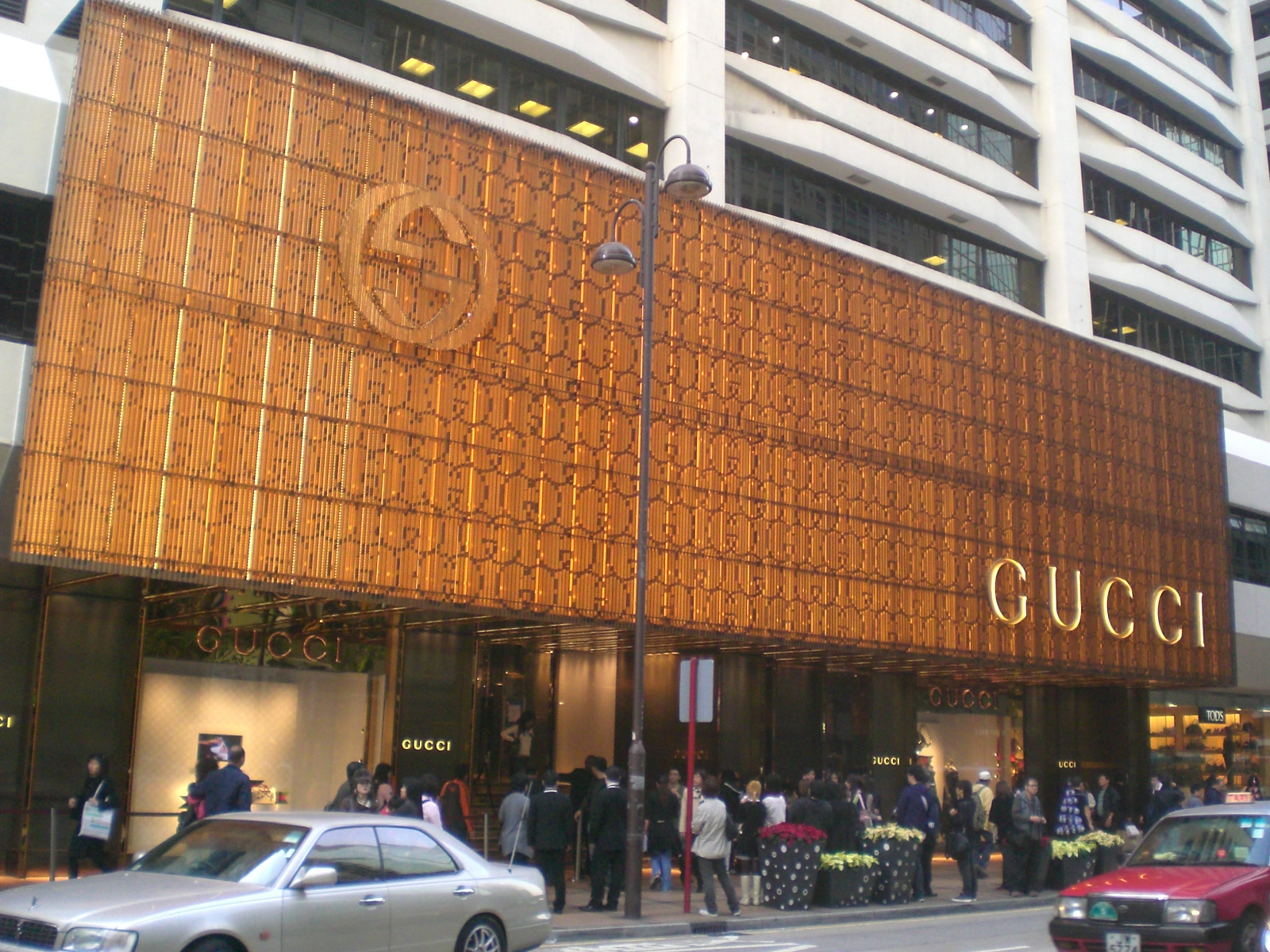 九龍zh:尖沙咀廣東道zh:古馳